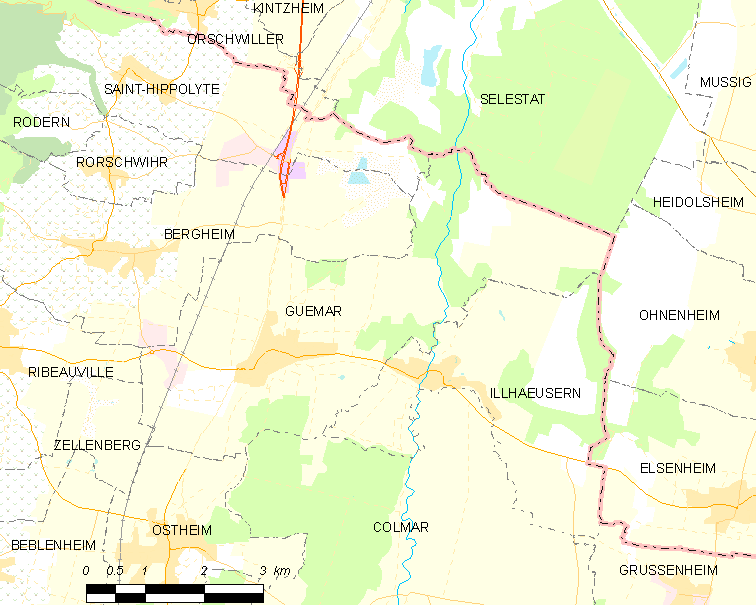 Map of French municipality